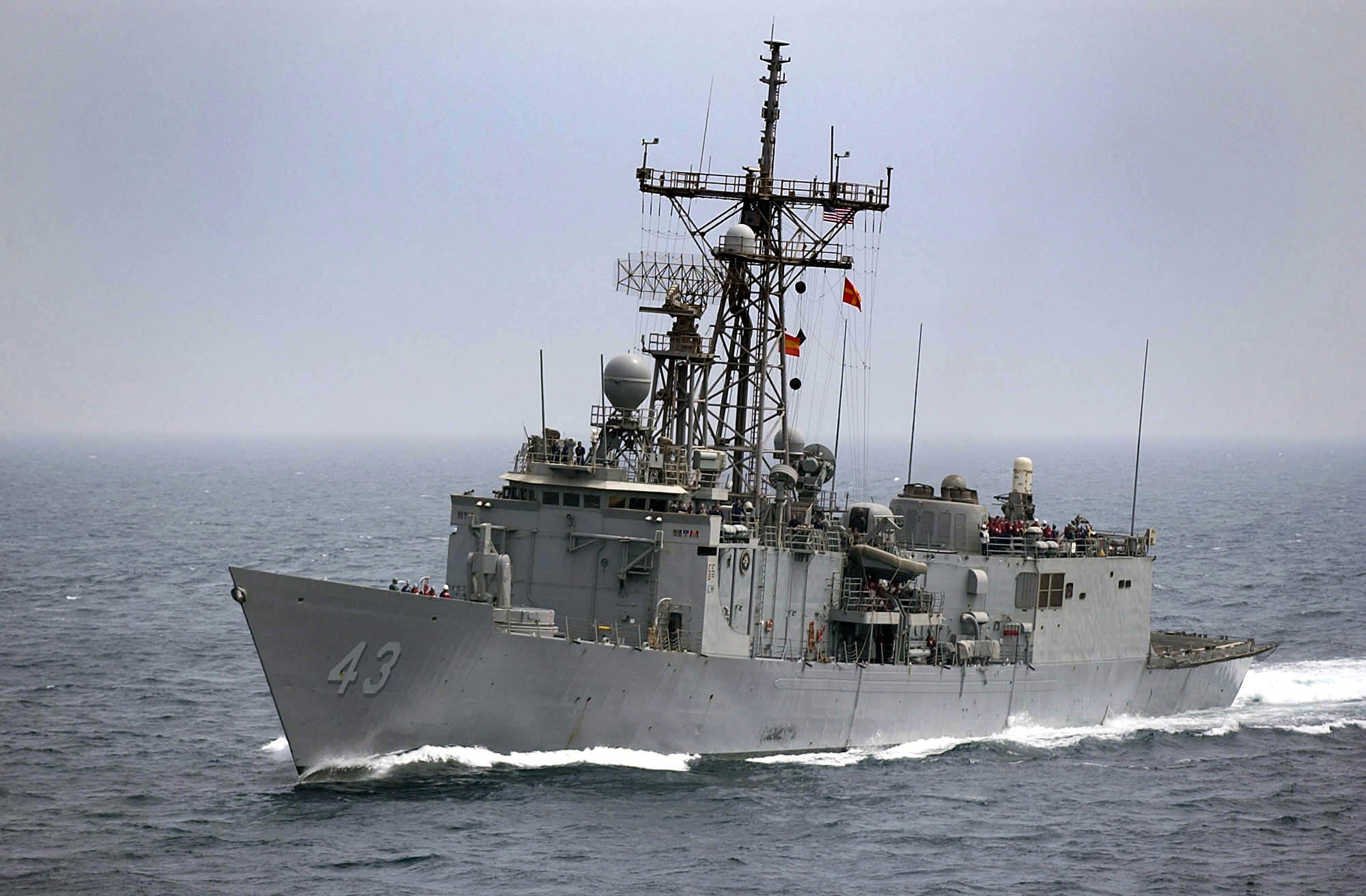 The Arabian Gulf (Mar. 23, 2003) — The U.S. Navy frigate USS Thach (FFG-43) comes alongside the USS Constellation (CV-64). Thach is conducting missions with the Constellation battle group in support of Operation Iraqi Freedom. Operation Iraqi Freedom is the multinational coalition effort to liberate the Iraqi people, eliminate weapons of mass destruction and end the regime of Saddam Hussein.